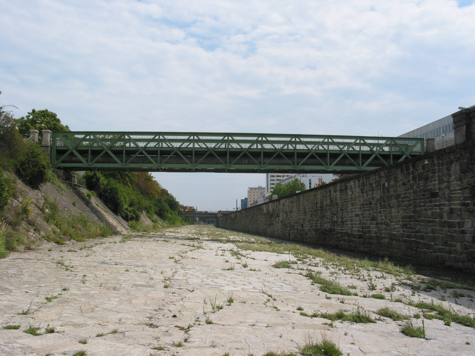 Preindlsteg over Wien River, Vienna